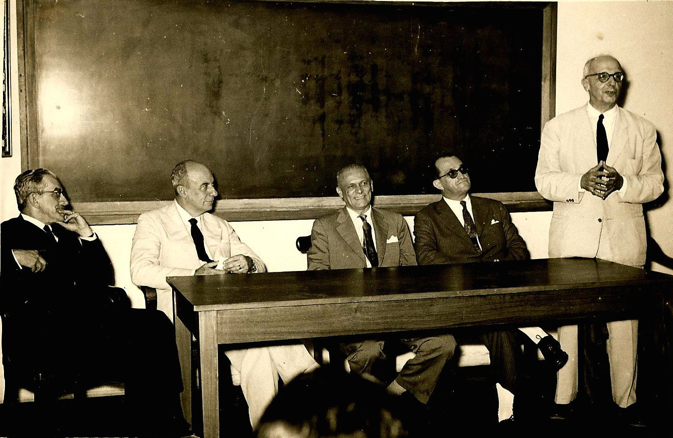 Registro de reunião do Centro Dom Vital, na ponta esquerda encontra-se Sobral Pinto e na ponta direita, de pé, Alceu